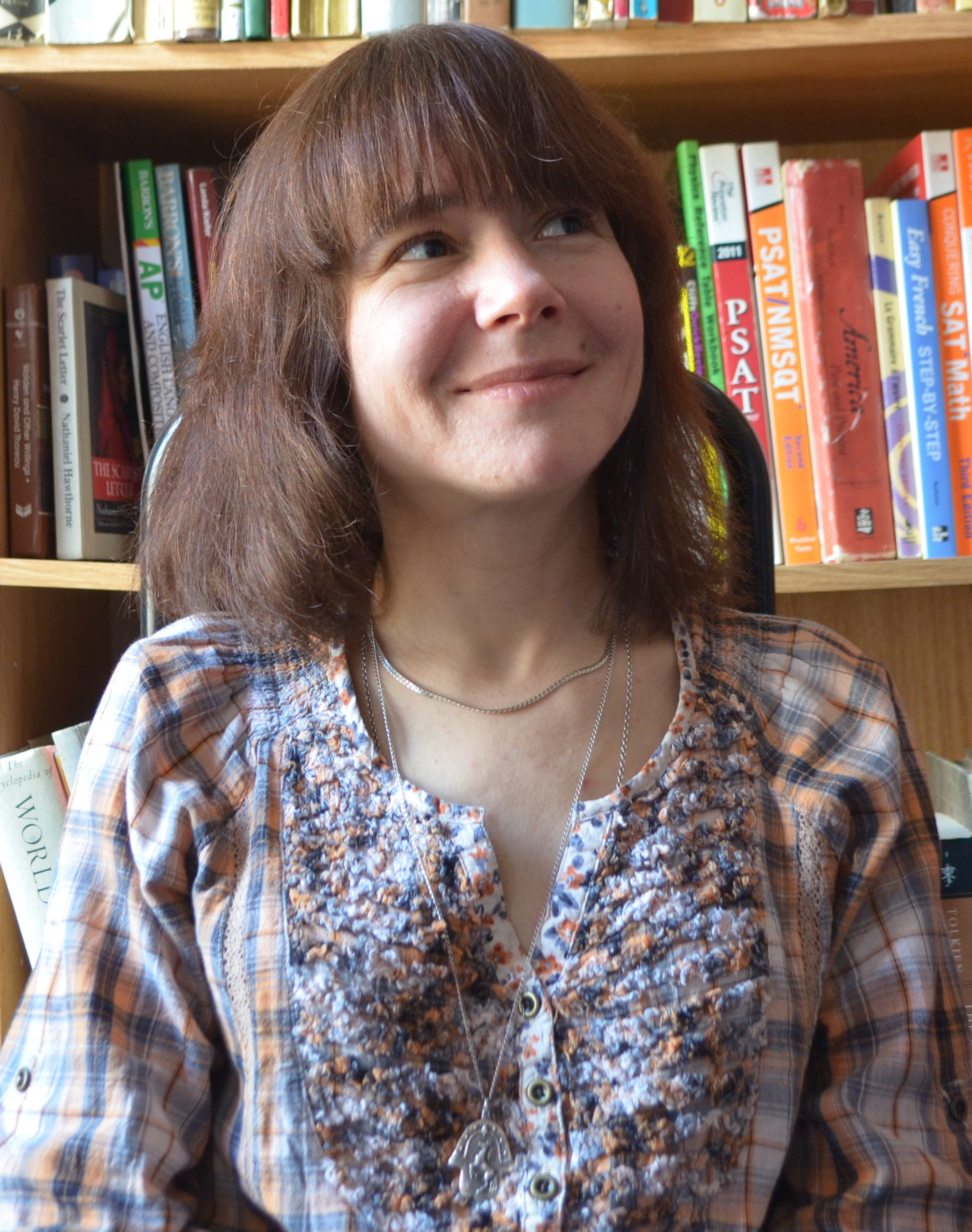 Ekaterina Derzhavina in NYC 2013